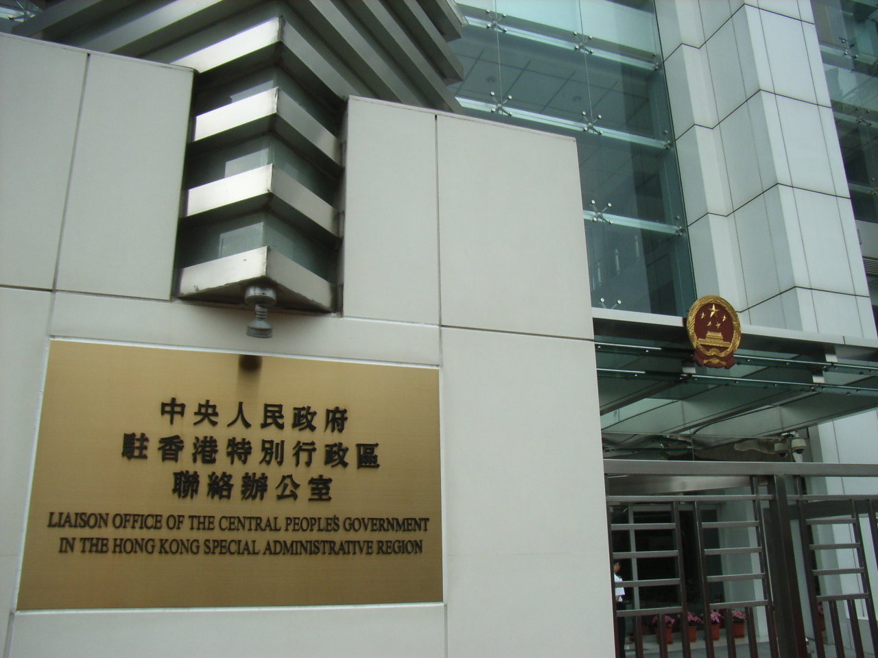 中華人民共和國駐香港特別行政區聯絡辦公室 簡稱 中聯辦 (香港) 英文主名: "Office Of The Commissioner Of The Ministry Of Foreign Affairs Of The People's Republic Of China In The Hong Kong Special Administrative Region"